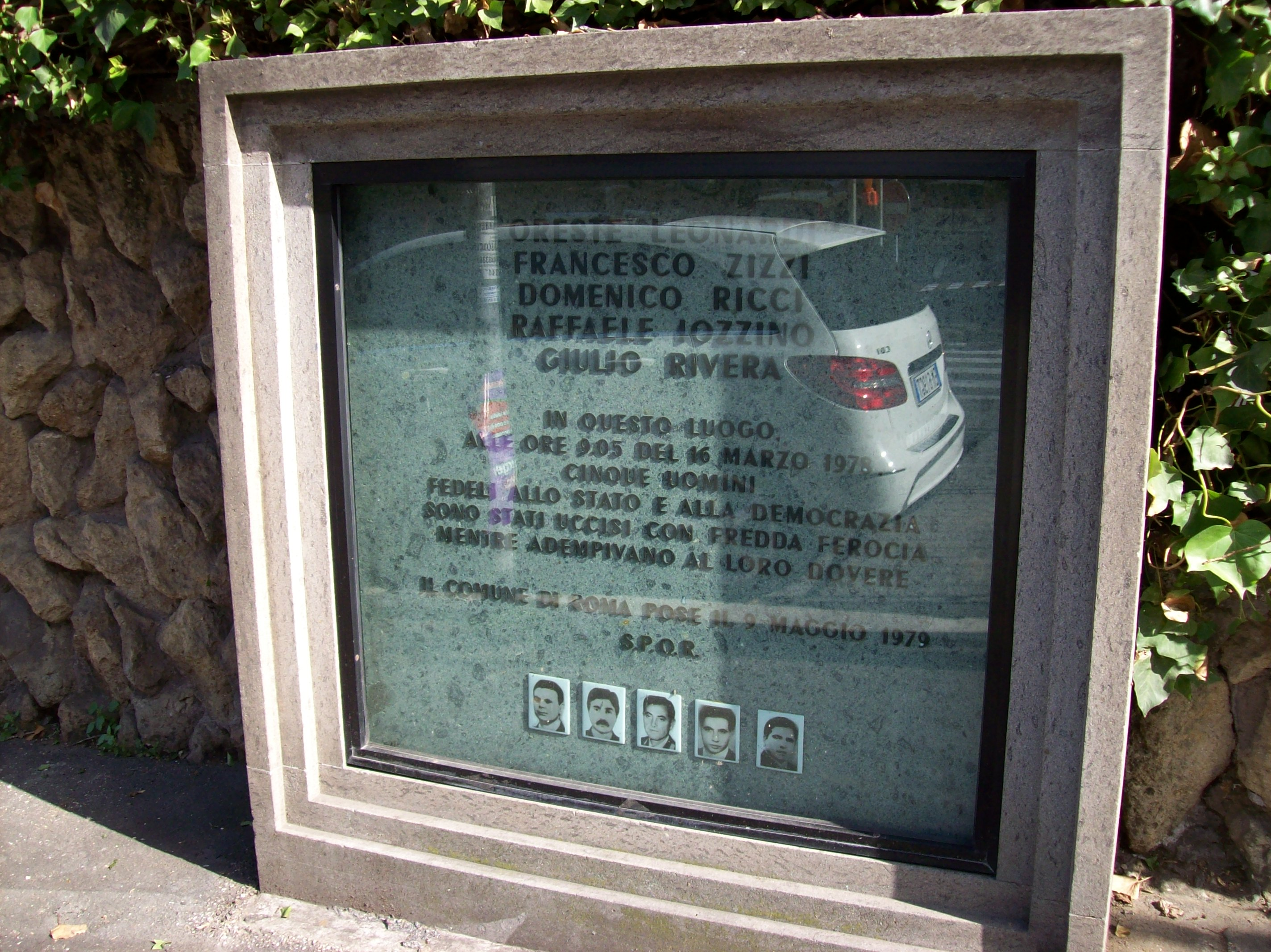 A plaque in via Mario Fani, in Rome, commemorating the policemen Oreste Leonardi, Francesco Zizzi, Domenico Ricci, Raffaele Iozzino and Giulio Rivera, who were killed in that place by the Red Brigades on 16 March 1978 during the kidnapping of Aldo Moro, the leader of Democrazia Cristiana